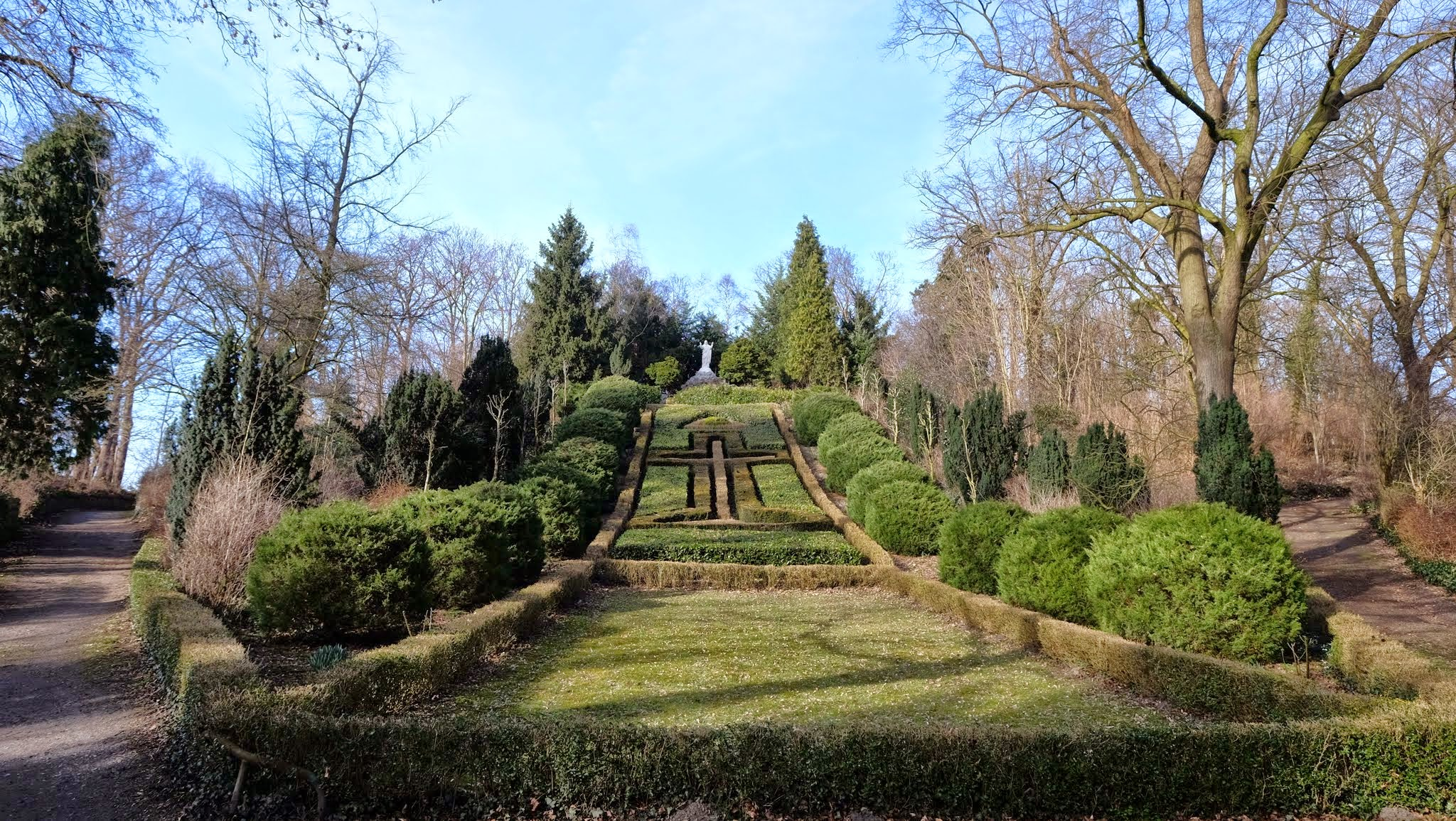 5935 Steyl, Netherlands